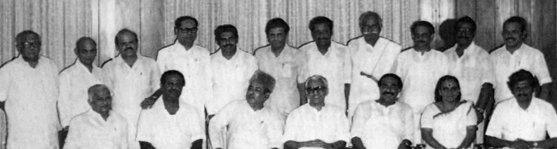 Kerala Ministers from 1983 Karunakaran Ministry